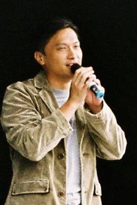 Sunny Chan in Brent Cross as guest compere of a TVB-Europe promotional event. Taken in car park opposite main entrance of London's Brent Cross shopping centre.